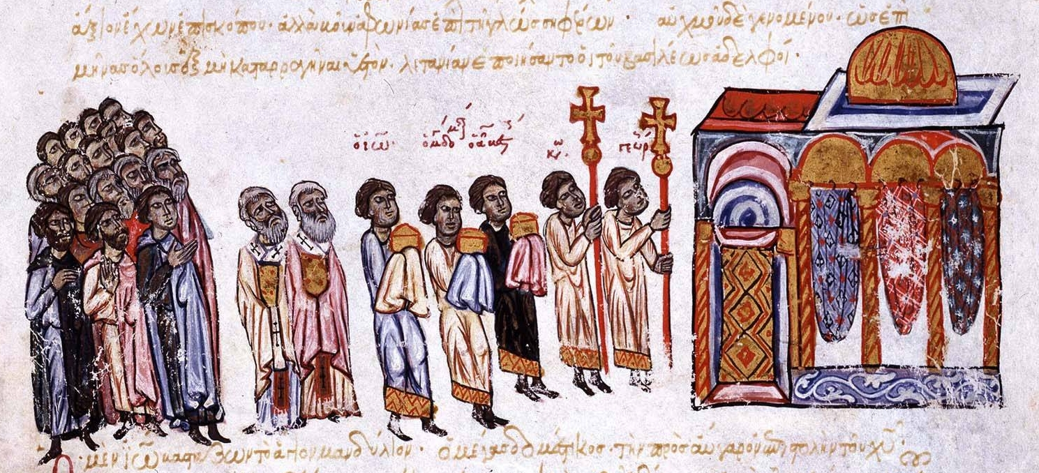 Litany with the emperor Michael IV's brothers, Ioannes, Konstantinos and Georgios, miniature from the Madrid Skylitzes, Fol. 210v